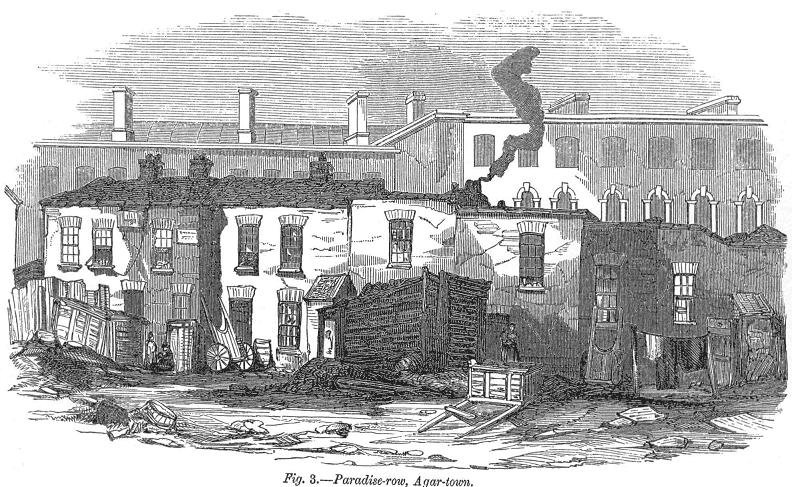 Illustration - Victorian London - Publications - Social Investigation/Journalism - London Shadows, by George Godwin, 1854 - Prologue - Chapter 1. Paradise Row Agar Town, London.